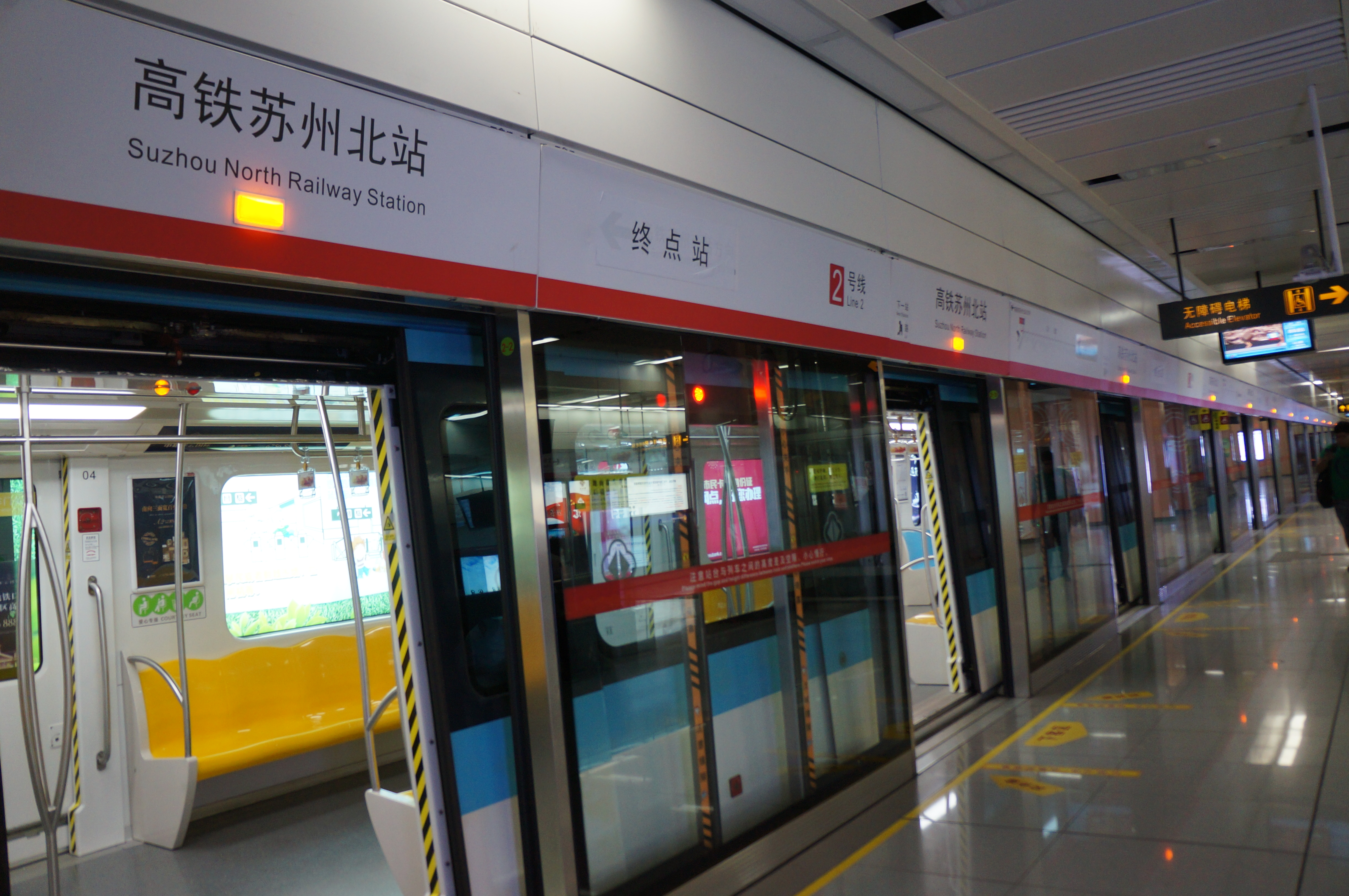 201609 Platform of SRT Suzhou North Railway Station